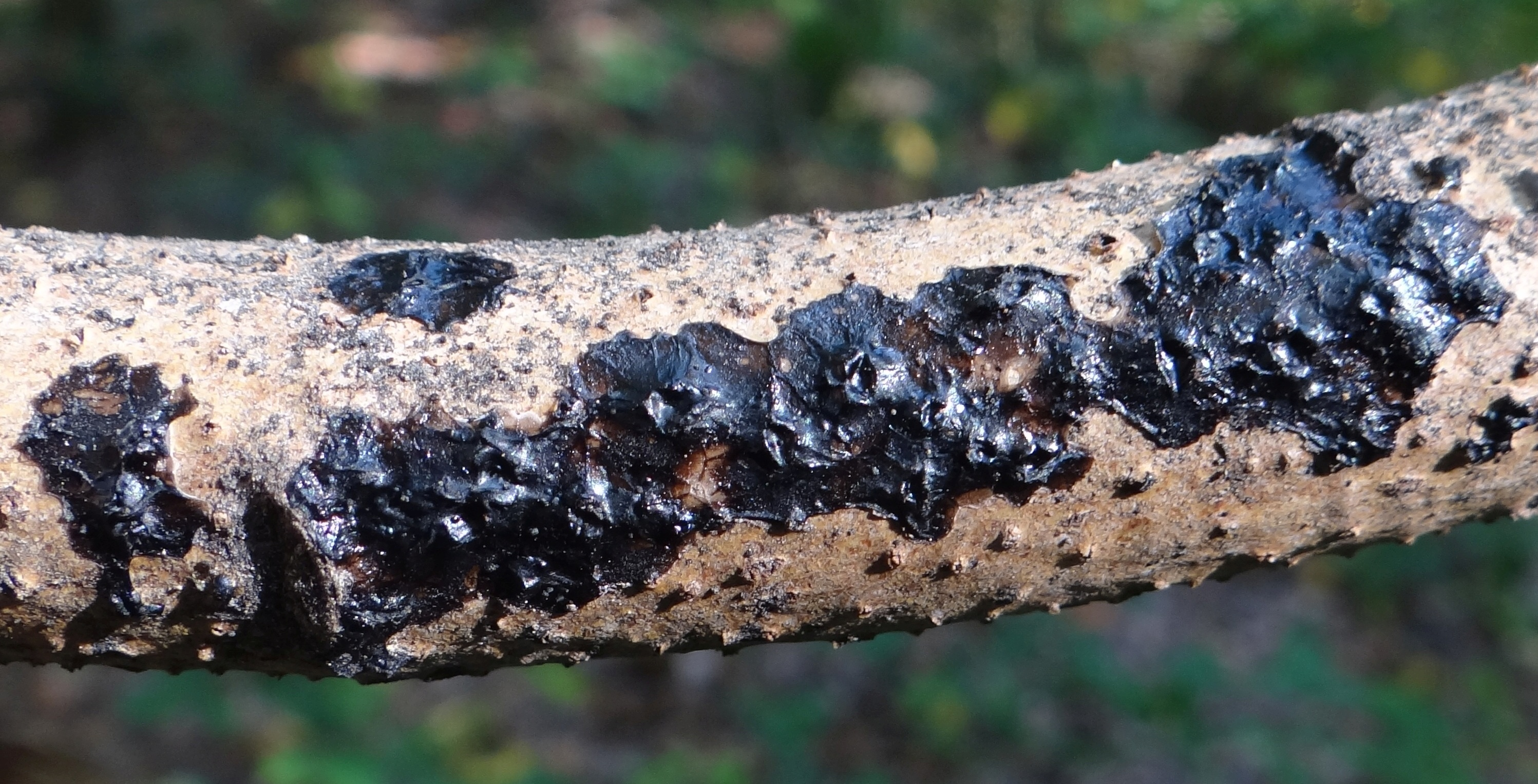 Exidia nigricans. Withered ascocarp